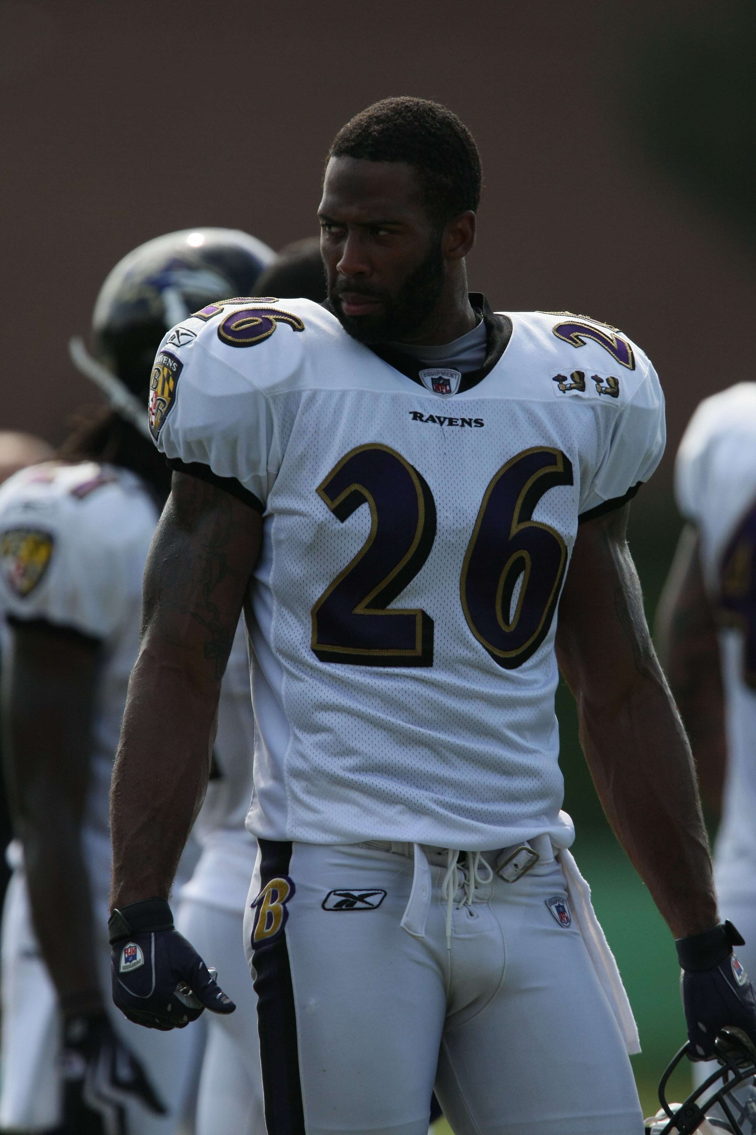 Baltimore Ravens Training Camp August 20, 2009